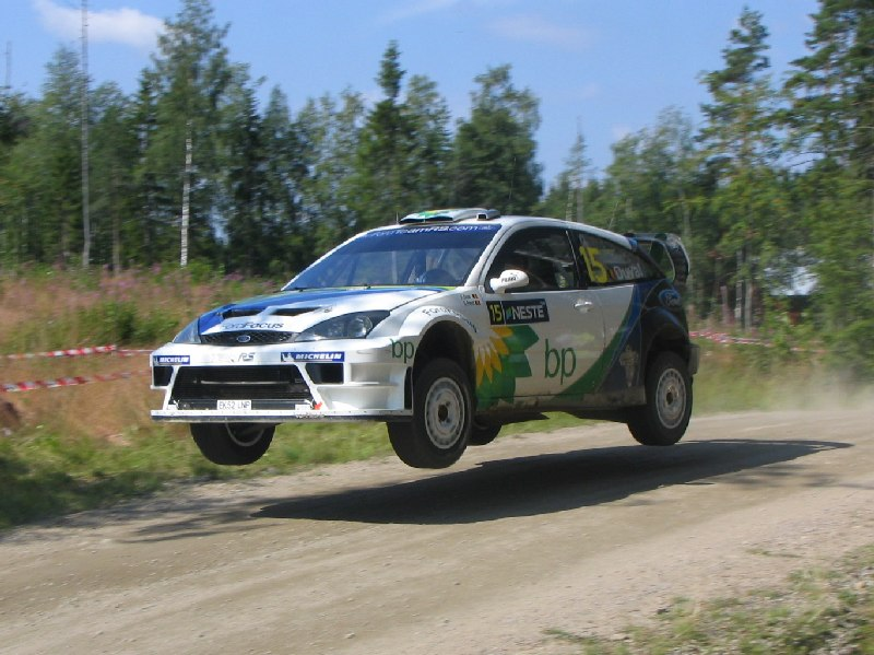 François Duval driving his Ford Focus RS WRC 04 at the 2004 Rally Finland.